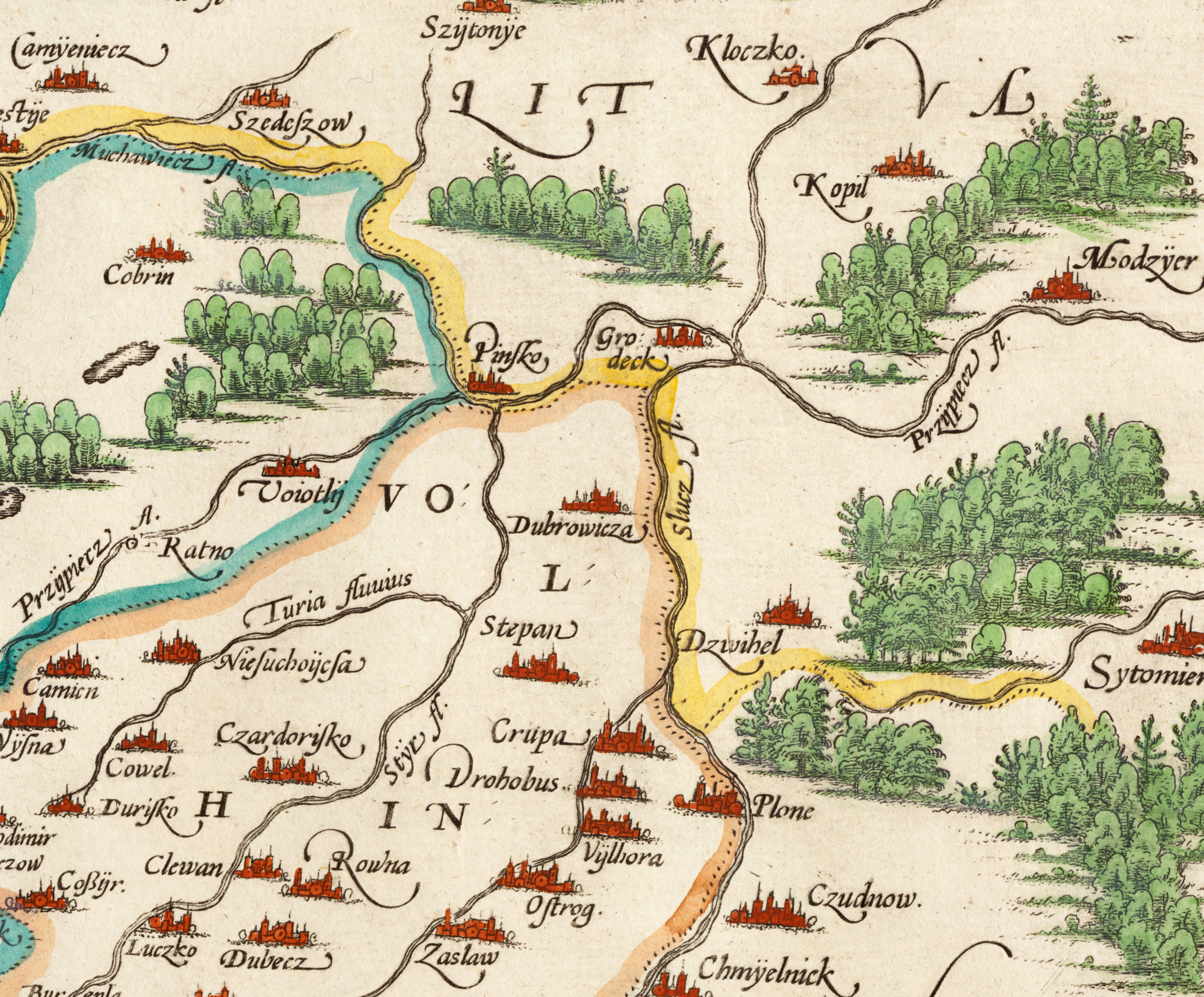 Dubrovytsia on Poloniae Finitimarumque locorum descriptio Auctore Wencelslao Godreccio, Abraham Ortelius (Antwerp, 1580).